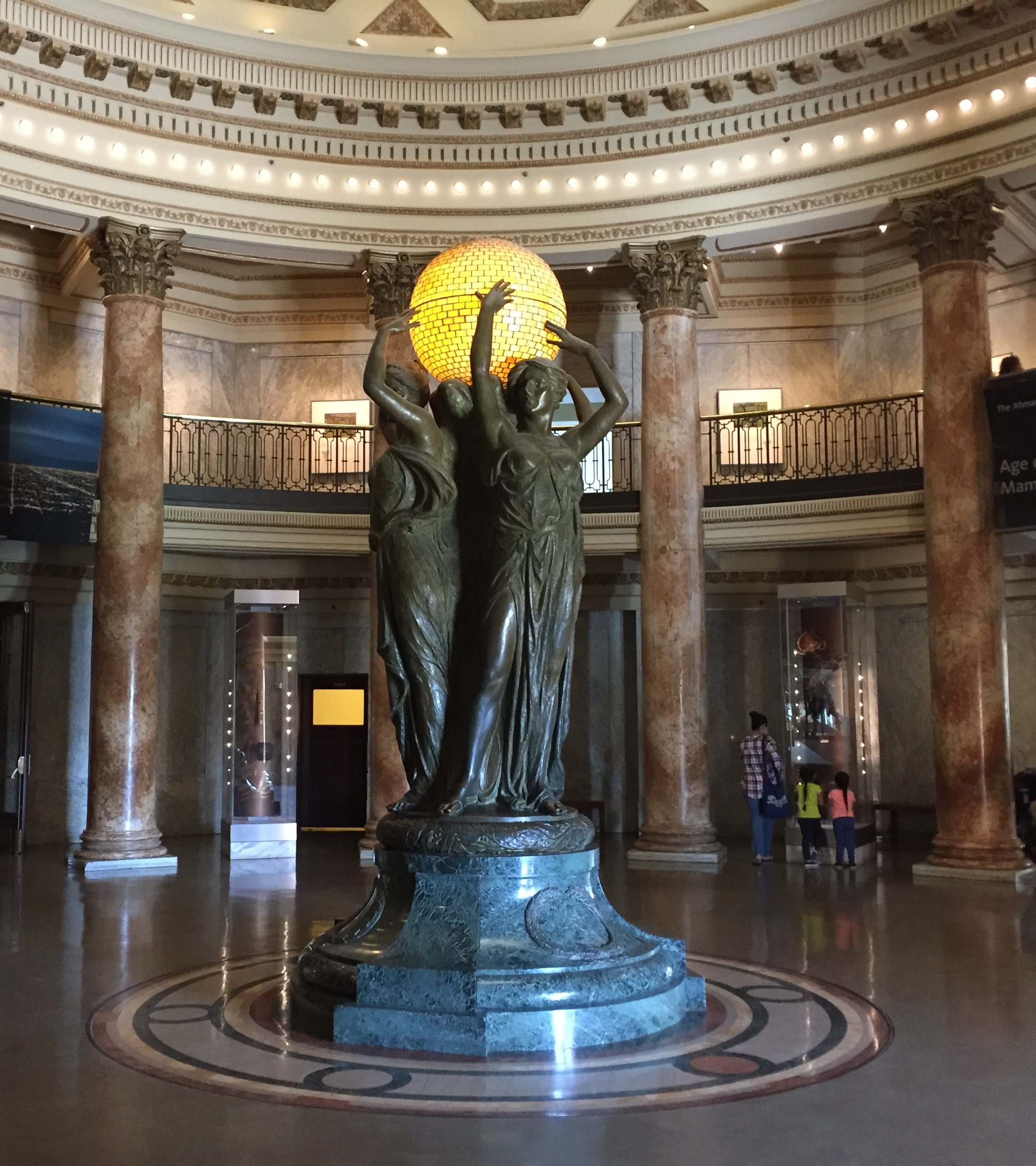 Natural History Museum of LA County